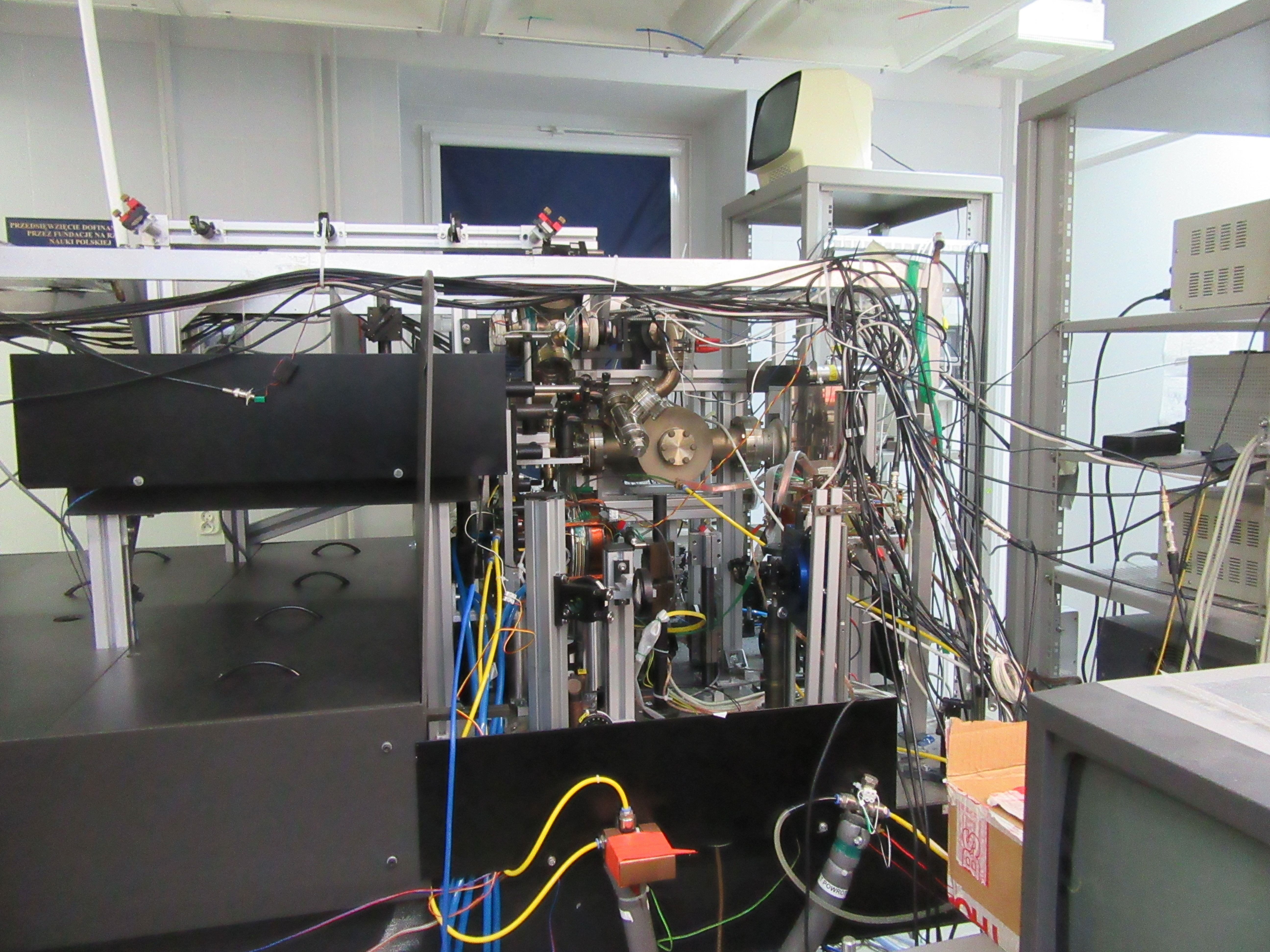 National Laboratory of Atomic, Molecular and Optical Physics in Nicolaus Copernicus University in Toruń (Poland). Equipment for making of Bose-Einstein Condensate.